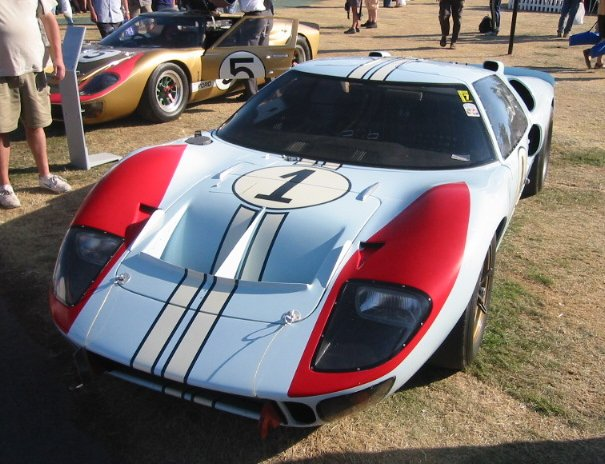 Photograph of the front of a Ford GT40 with another GT40 in different livery visible in the background. Photo taken by SamH at the 2003 Goodwood Festival of Speed, uploaded on 27 August 2004.